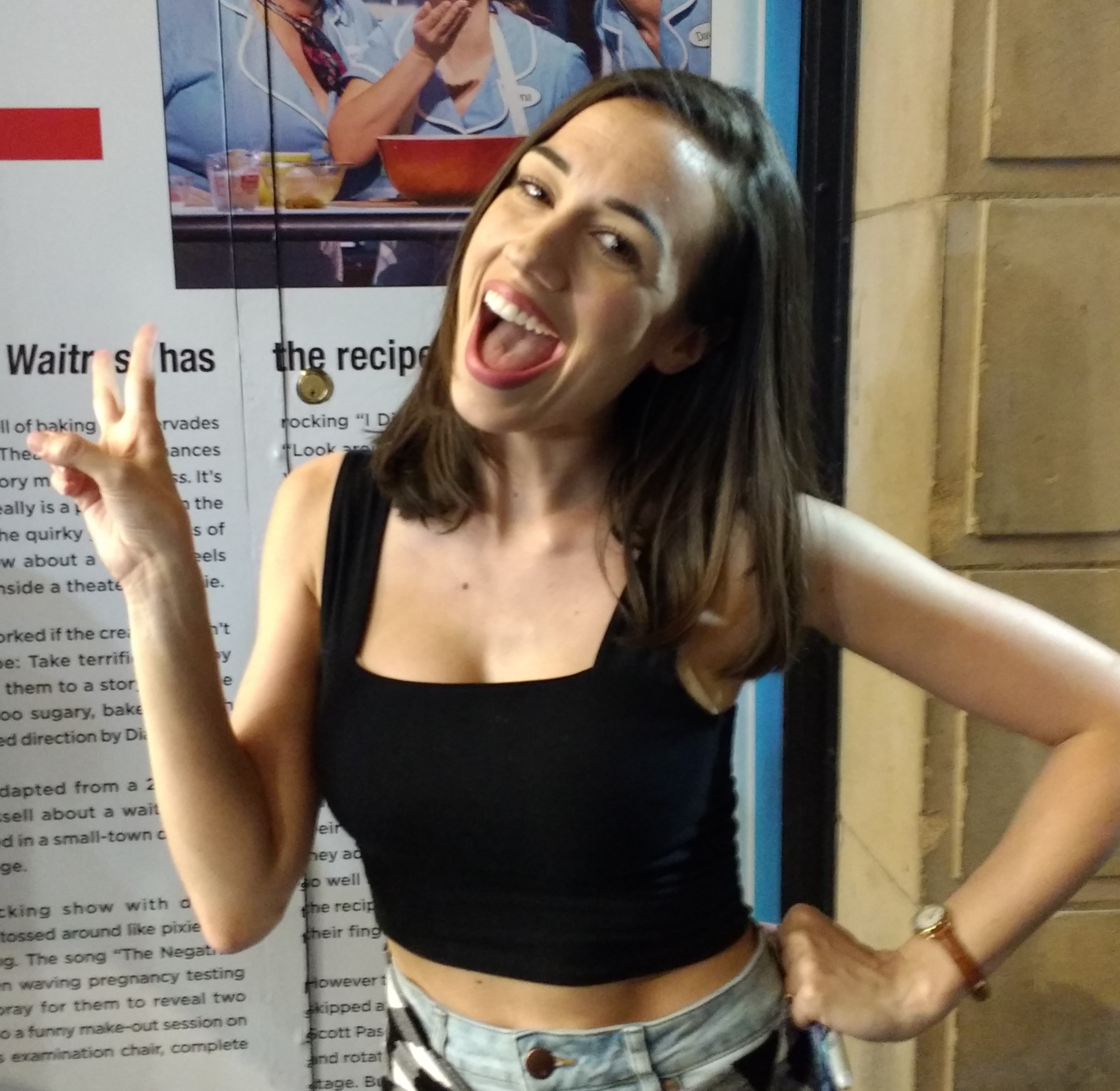 Colleen Ballinger outside Broadway's Brooks Atkinson Theatre after her performance of Dawn in the musical Waitress on August 26, 2019